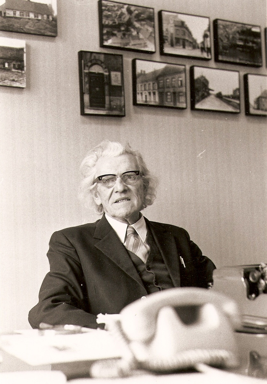 Leon Defraeye in his archive at the old town hall